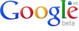 The Google HTTPS logo